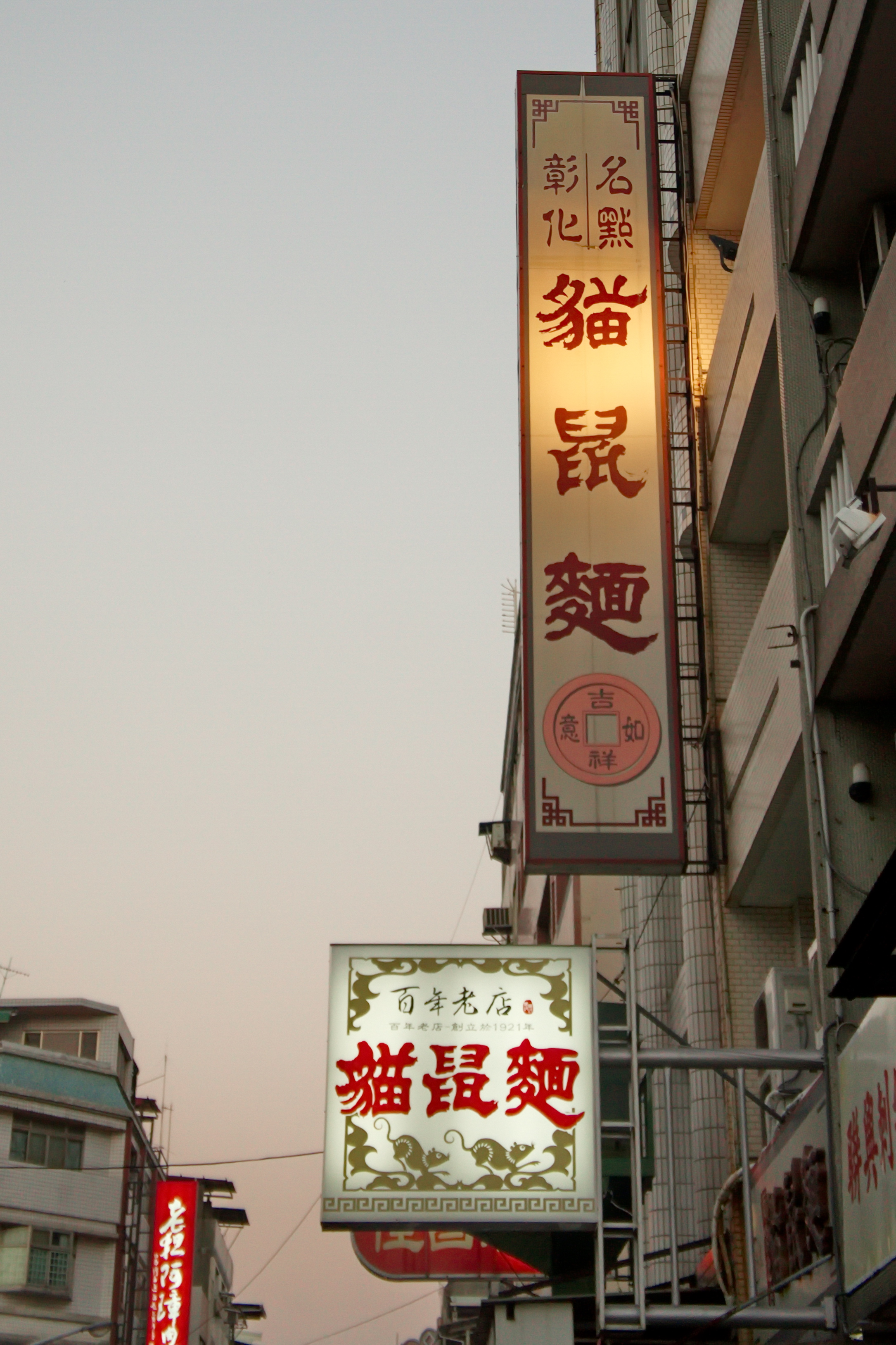 Shop signs of the Cat Mouse Noodles, Changhua City, Changhua County.